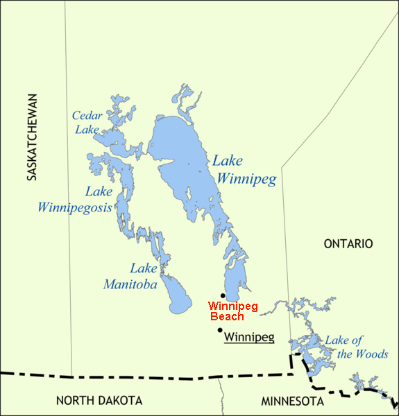 Location map for Winnipeg Beach, Manitoba